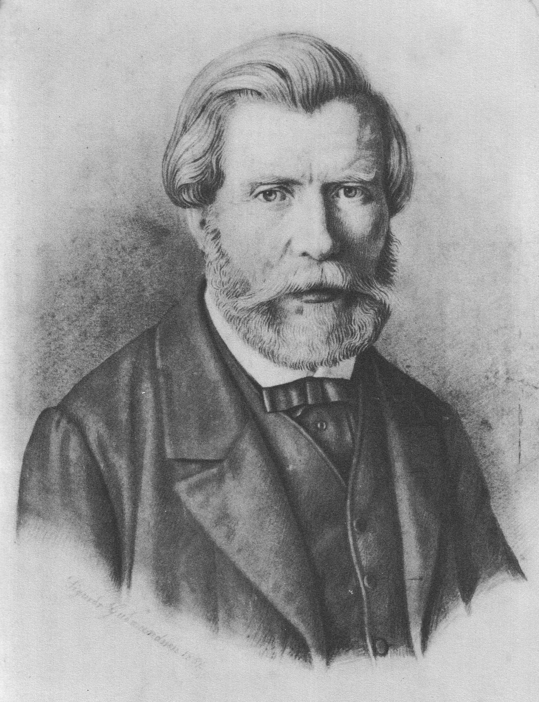 A portrait (pencil drawing) of Páll Ólafsson. Down in the left corner is written: "Sigurðr Guðmundsson 1867". According to Árbók Fornleifafélagsins 1977 the original measures 29.7 x 22.7 cm.